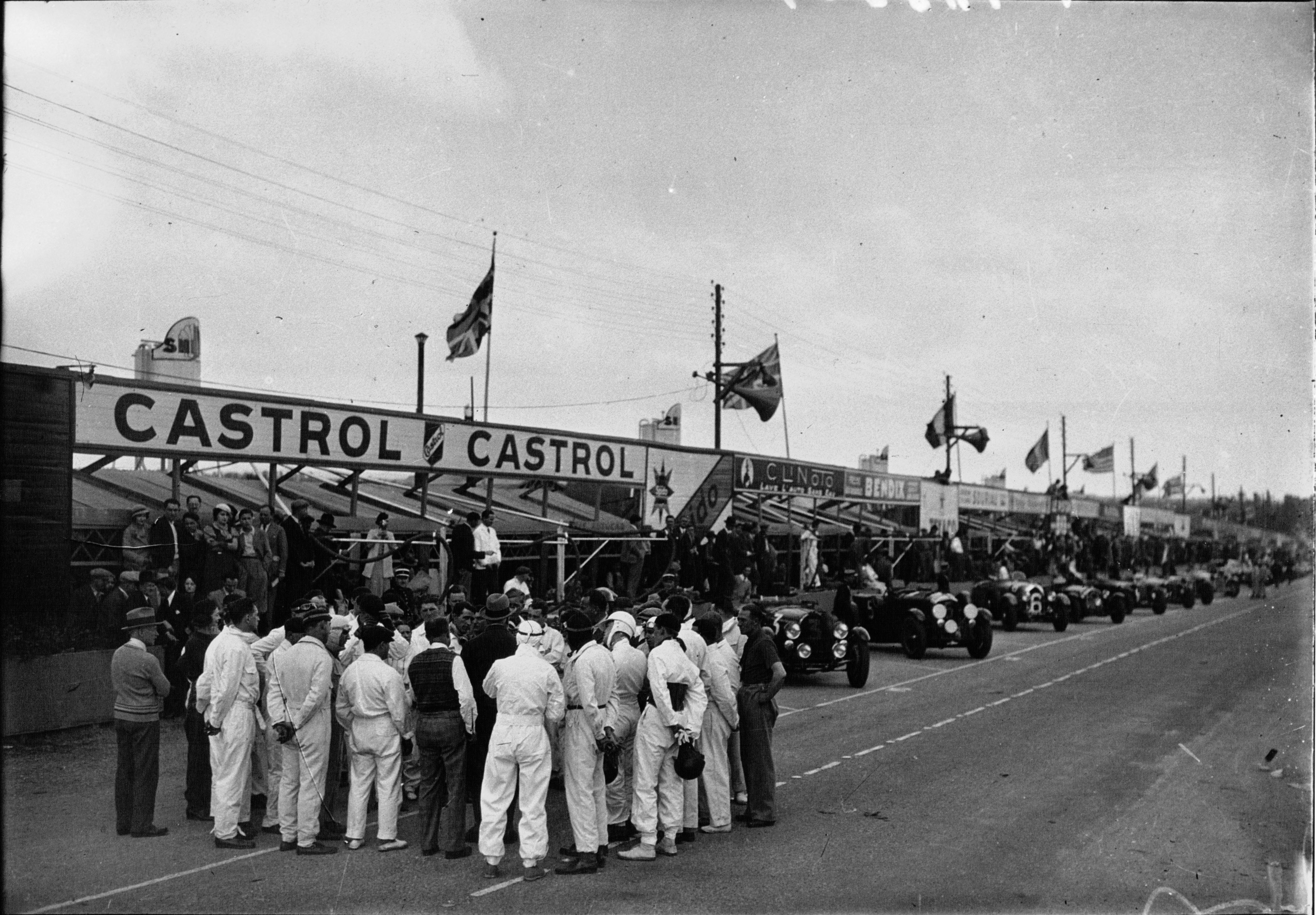 Drivers at the 1933 24 Hours of Le Mans.